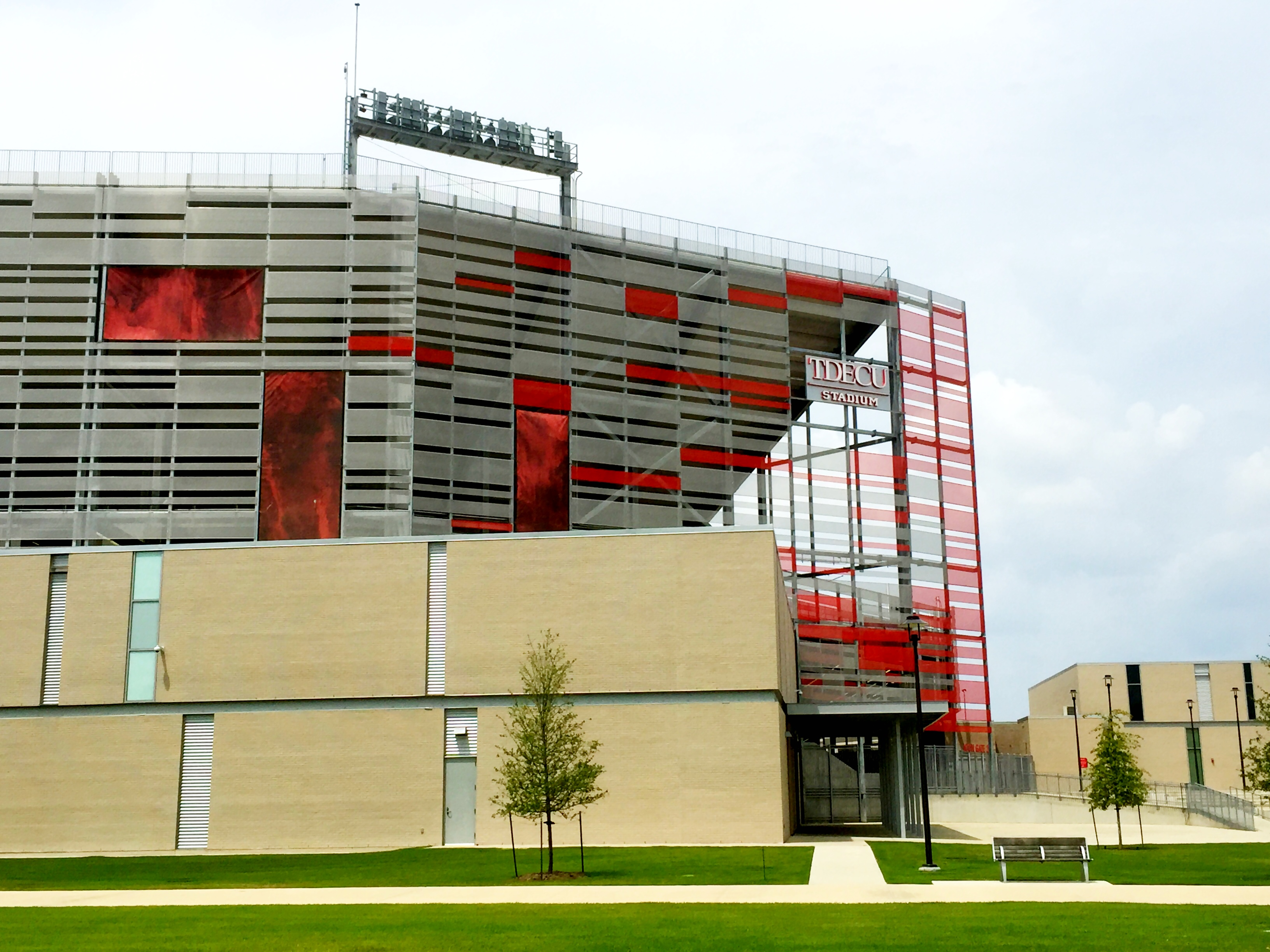 Cougar Cage Exterior - Southeast Corner of TDECU Stadium